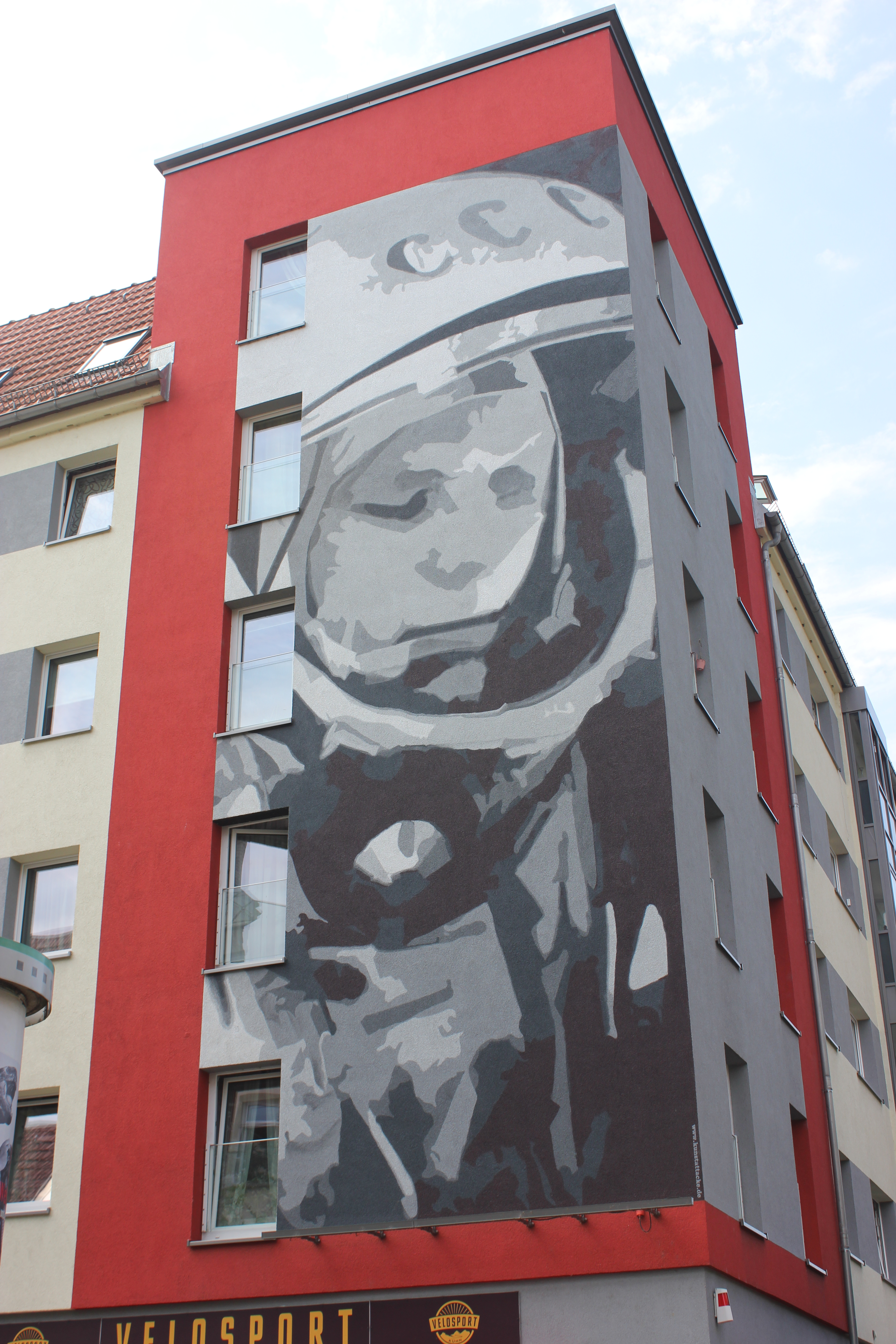 Erfurt - "Yuri Gagarin" mural